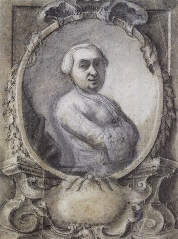 Pencil and charcoal portrait of Italian writer Giovanni Ambrogio Migliavacca (circa 1718 - circa 1795)